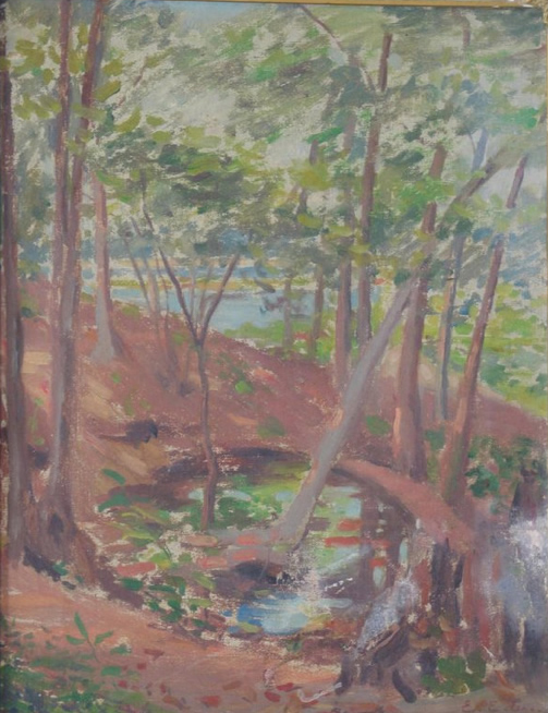 A landscape painting of a forest by Emma Eilers. The painting had no name.